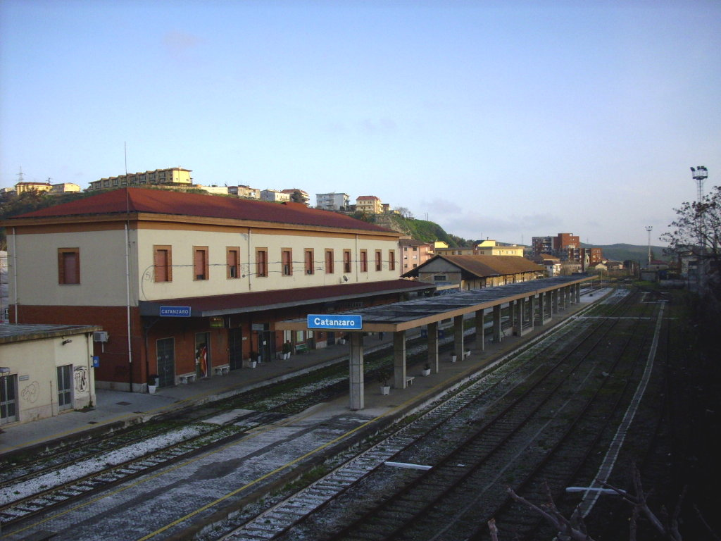 Panoramic view of Catanzaro Sala station